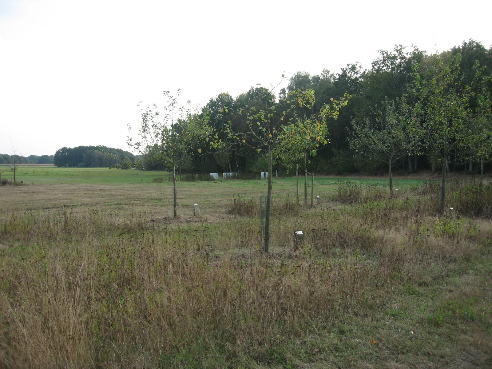 NSG Kauers Wittmoor